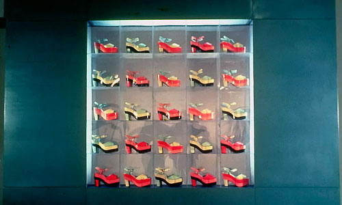 Doble Plataforma, obra de la artista argentina Dalila Puzzovio. Consiste en 16 pares de zapatos expuestos en cubos de acrílico dentro de un gran exhibidor de acero e iluminado en su interior. "Lo propuse como un work in progress porque el jurado internacional tuvo que ver, primero la obra en el Di Tella, y luego recorrer las sucursales de la zapatería Grimoldi de la calle Florida o de la Av. Santa Fe para ver el zapato como objeto de consumo. La idea era obra de arte-consumo / consumo- obra de arte", recuerda Puzzovio.